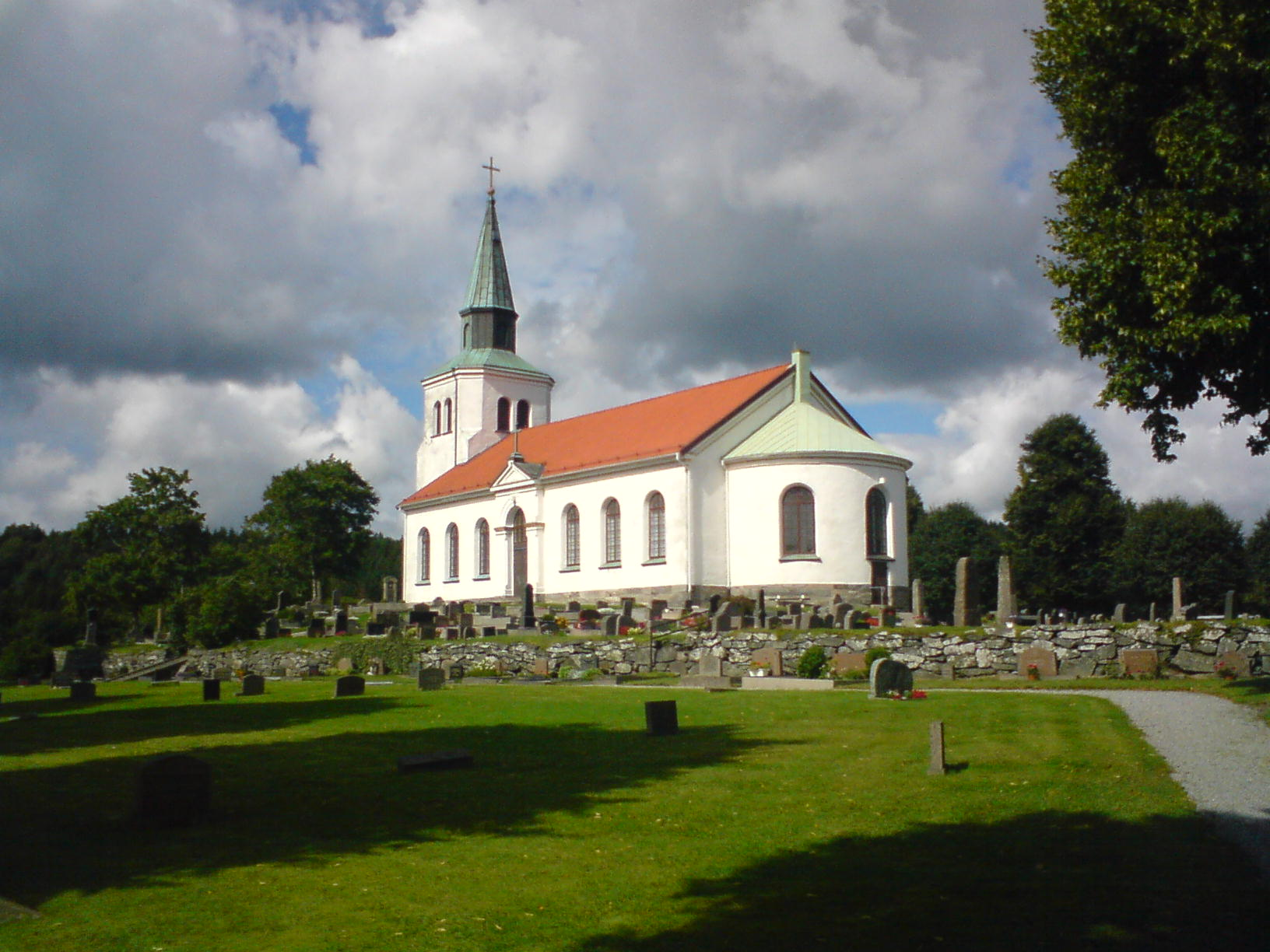 Parish church of Torp, Orust from the southeast.